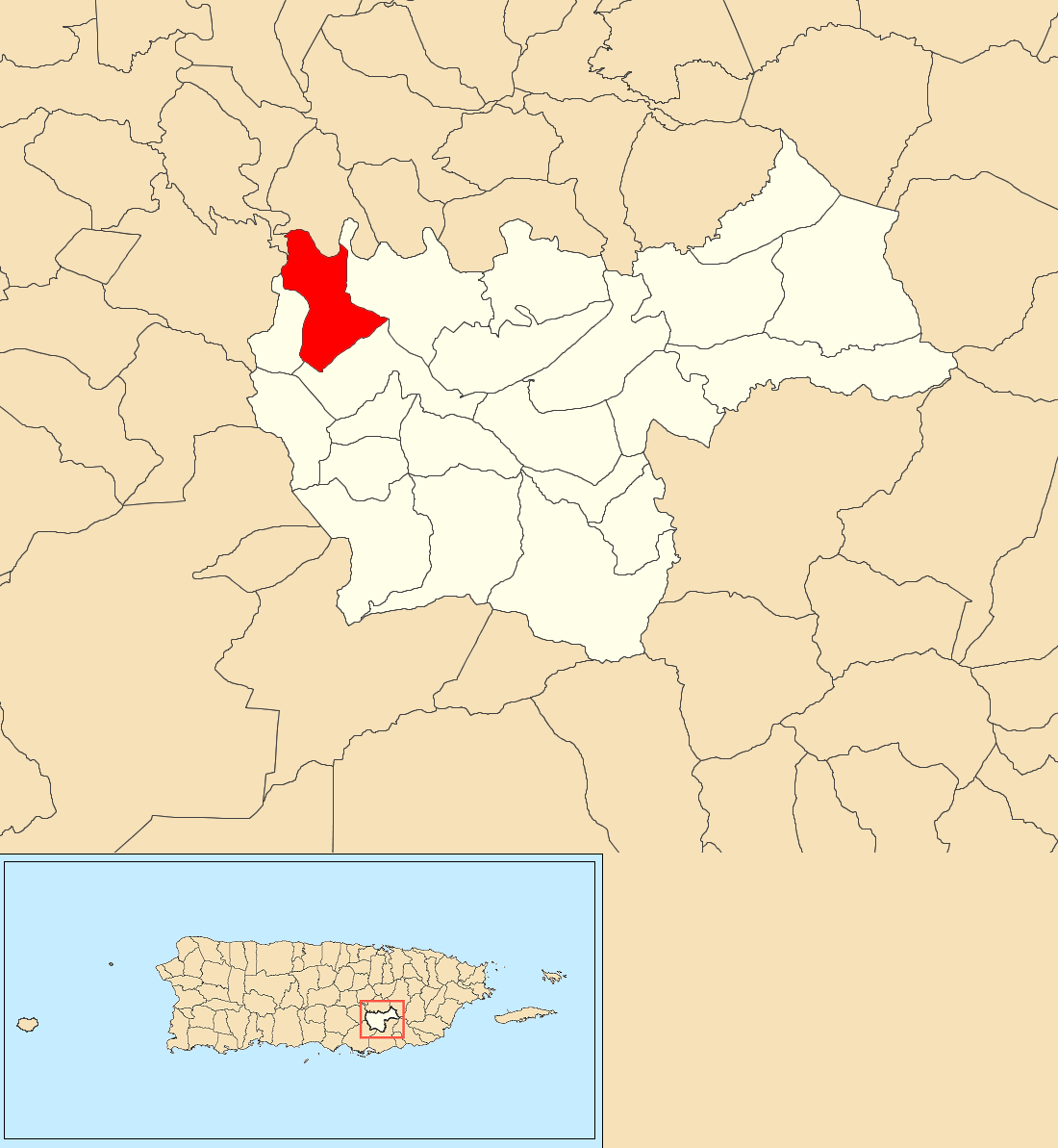 Matón Abajo, Cayey, Puerto Rico locator map